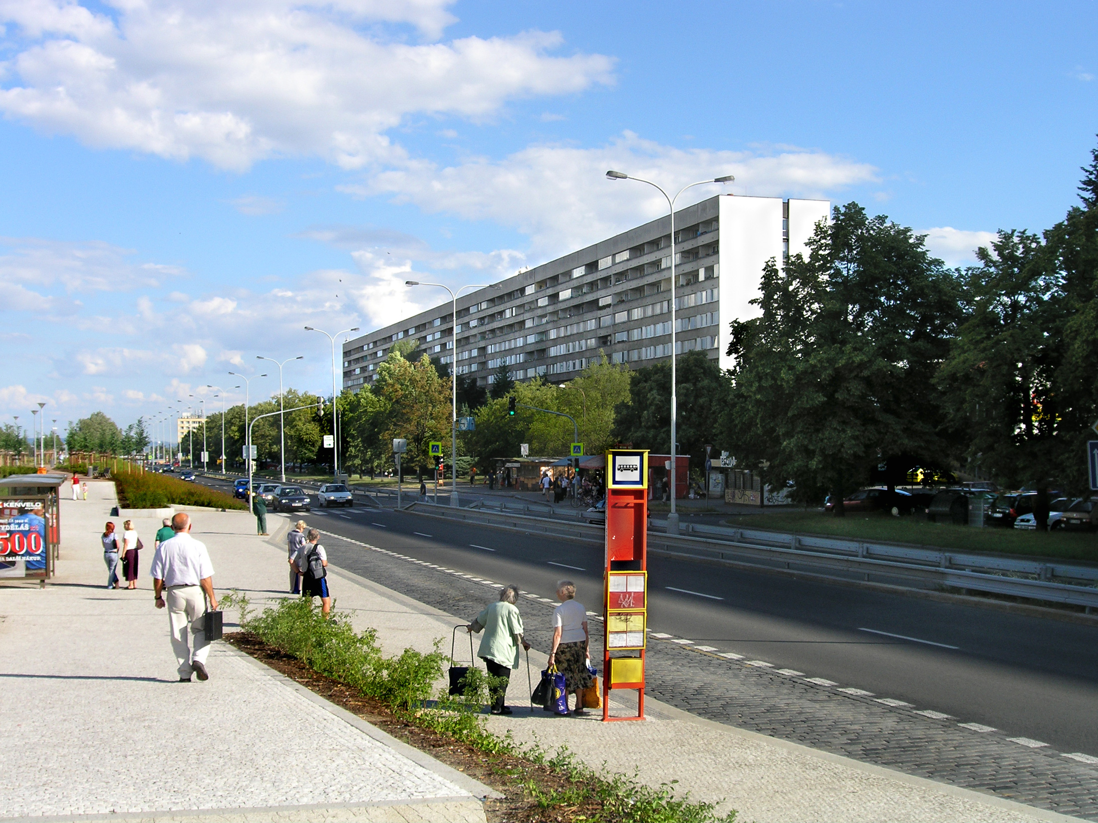 Vysočanská street at Prosek housing estate, Prague